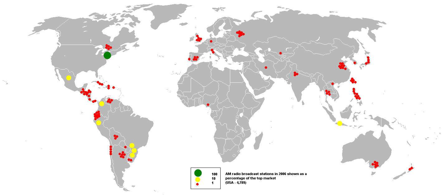 This bubble map shows the global distribution of AM radio broadcast stations in 2006 as a percentage of the top market (USA - 4,789). This map is consistent with incomplete set of data too as long as the top producer is known. It resolves the accessibility issues faced by colour-coded maps that may not be properly rendered in old computer screens. Data was extracted on 20th December 2007 from Based on :Image:BlankMap-World.png